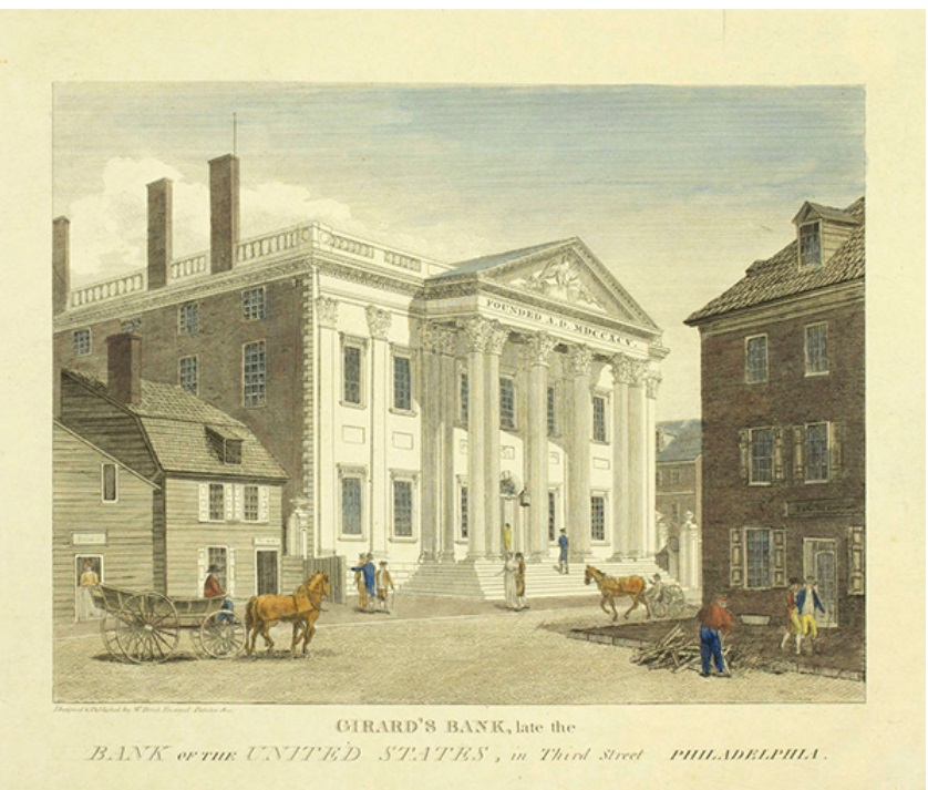 (Library Company of Philadelphia）